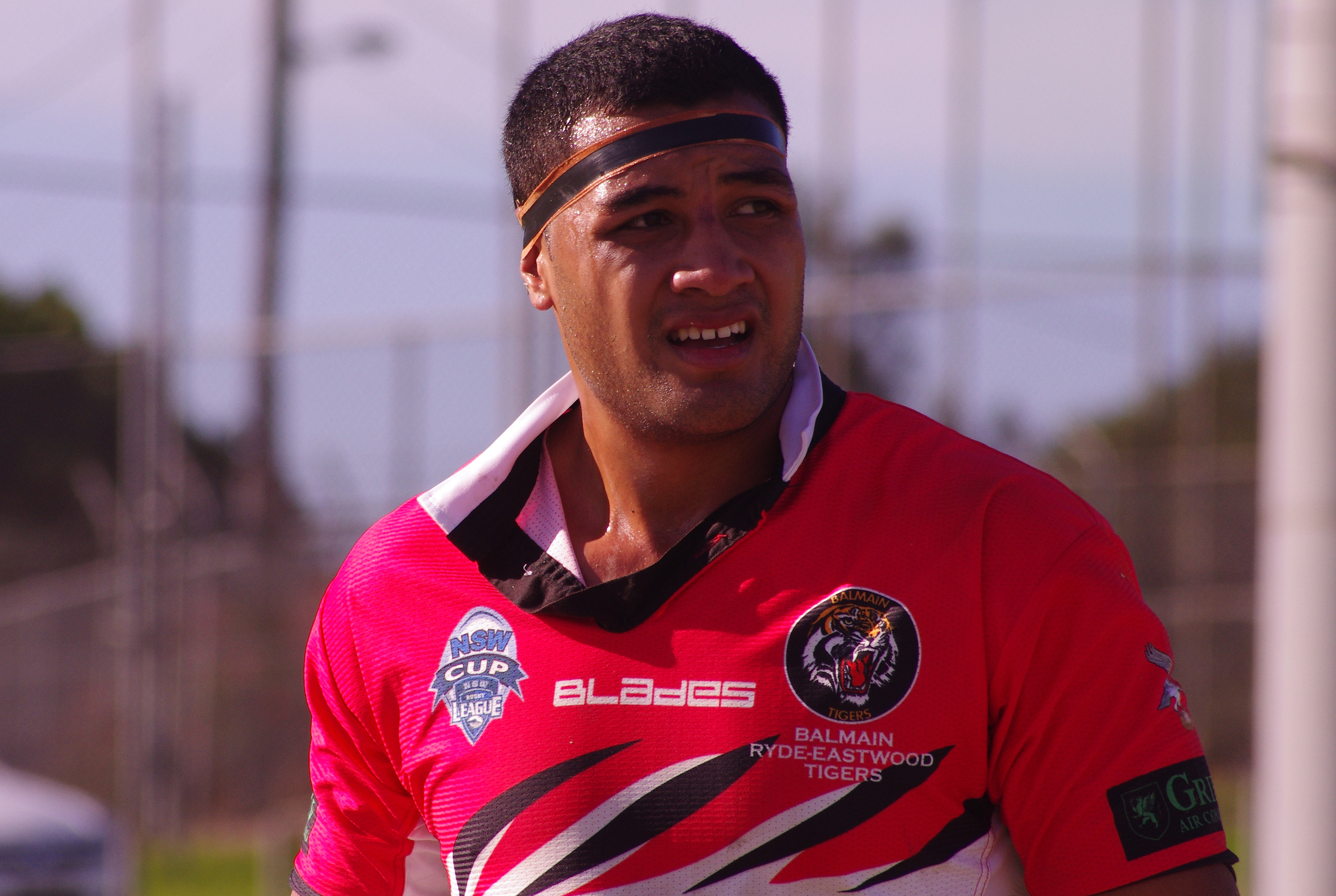 Ava Seumanufagai